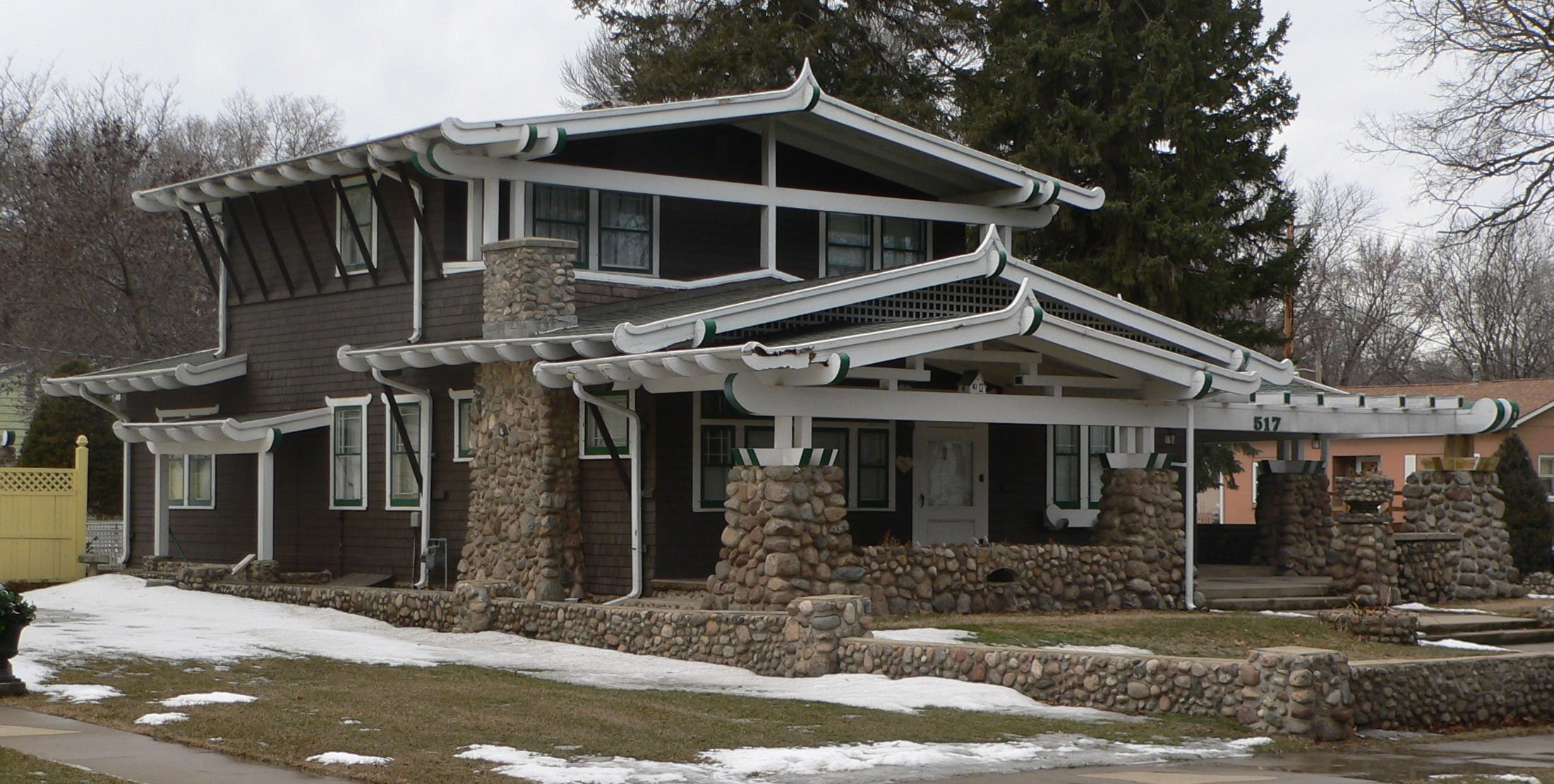 Dr. B.M. Banton House, located at 517 Locust Street in Yankton, South Dakota; seen from the southeast. The 1920 house is listed in the National Register of Historic Places.